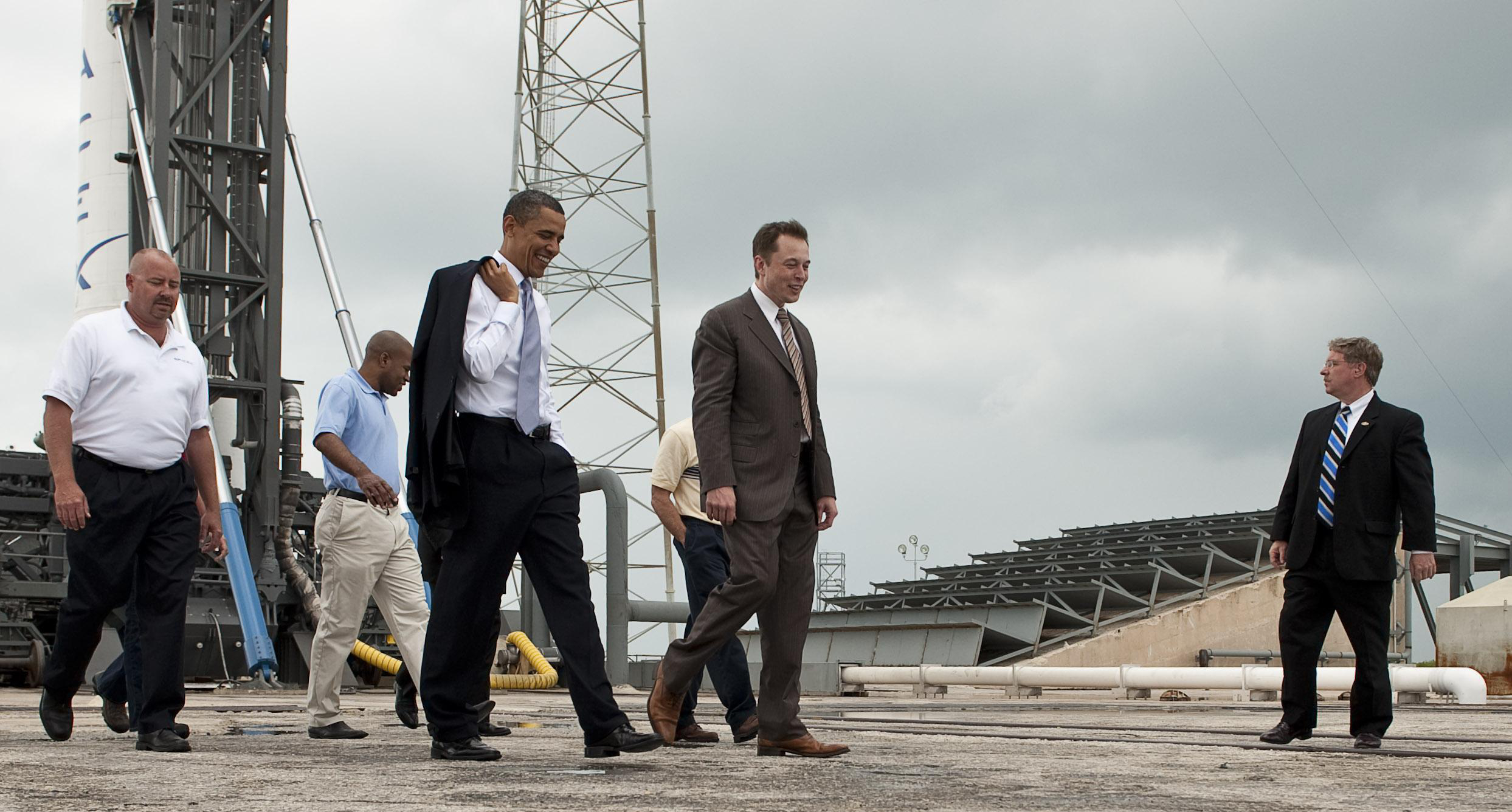 President Barack Obama tours the commercial rocket processing facility of Space Exploration Technologies, known as SpaceX, along with Elon Musk, SpaceX CEO at Cape Canaveral Air Force Station, Cape Canaveral, Fla. on Thursday, April 15, 2010. Obama also visited the NASA Kennedy Space Center to deliver remarks on the bold new course the administration is charting to maintain U.S. leadership in human space flight.